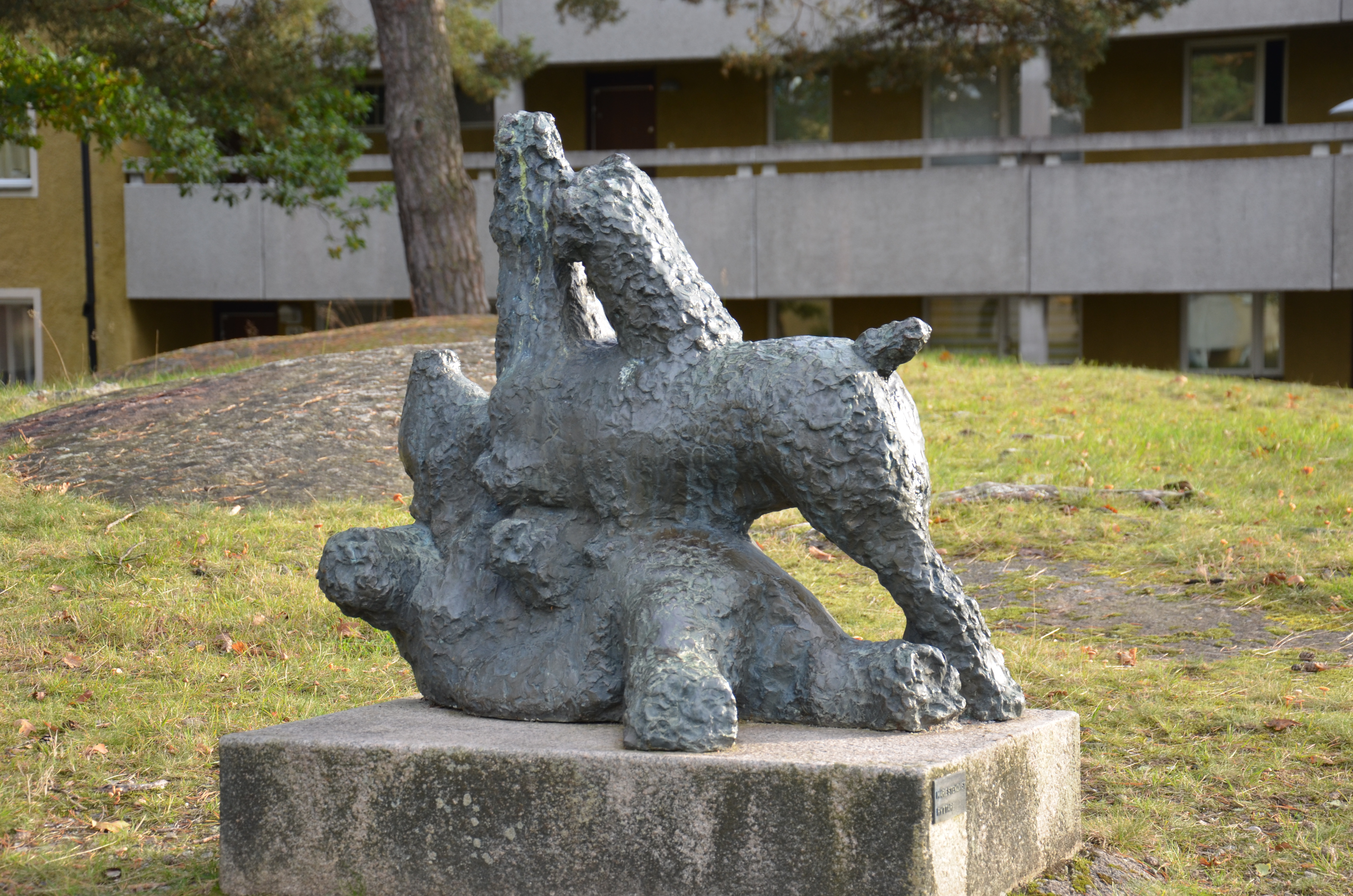 Ryttare, brons, av Marie Stenkvist, Skärholmen i Stokholm